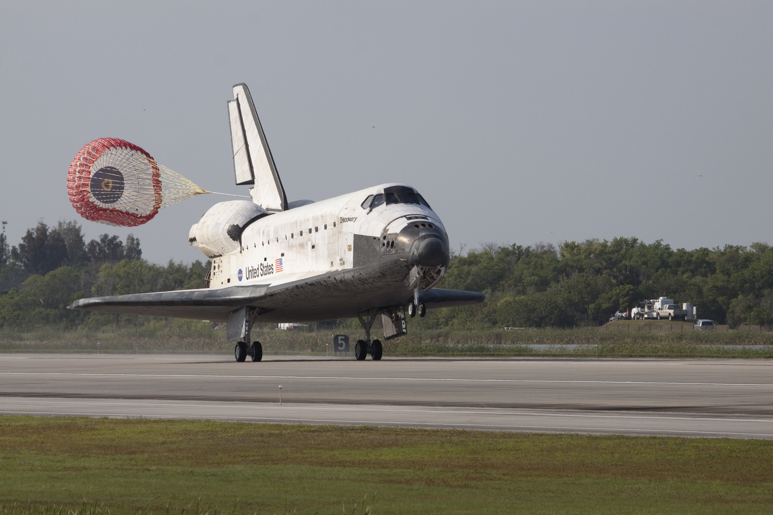 CAPE CANAVERAL, Fla. - With drag chute unfurled, space shuttle Discovery lands on Runway 33 at the Shuttle Landing Facility at NASA's Kennedy Space Center in Florida after 15 days in space, completing the more than 6.2-million-mile STS-131 mission on orbit 238. Main gear touchdown was at 9:08:35 a.m. EDT followed by nose gear touchdown at 9:08:47 a.m. and wheelstop at 9:09:33 a.m. Aboard are Commander Alan Poindexter; Pilot James P. Dutton Jr.; and Mission Specialists Rick Mastracchio, Clayton Anderson, Dorothy Metcalf-Lindenburger, Stephanie Wilson and Naoko Yamazaki of the Japan Aerospace Exploration Agency. The seven-member STS-131 crew carried the multi-purpose logistics module Leonardo, filled with supplies, a new crew sleeping quarters and science racks that were transferred to the International Space Station's laboratories. The crew also switched out a gyroscope on the station’s truss, installed a spare ammonia storage tank and retrieved a Japanese experiment from the station’s exterior. STS-131 is the 33rd shuttle mission to the station and the 131st shuttle mission overall. For information on the STS-131 mission and crew, visit